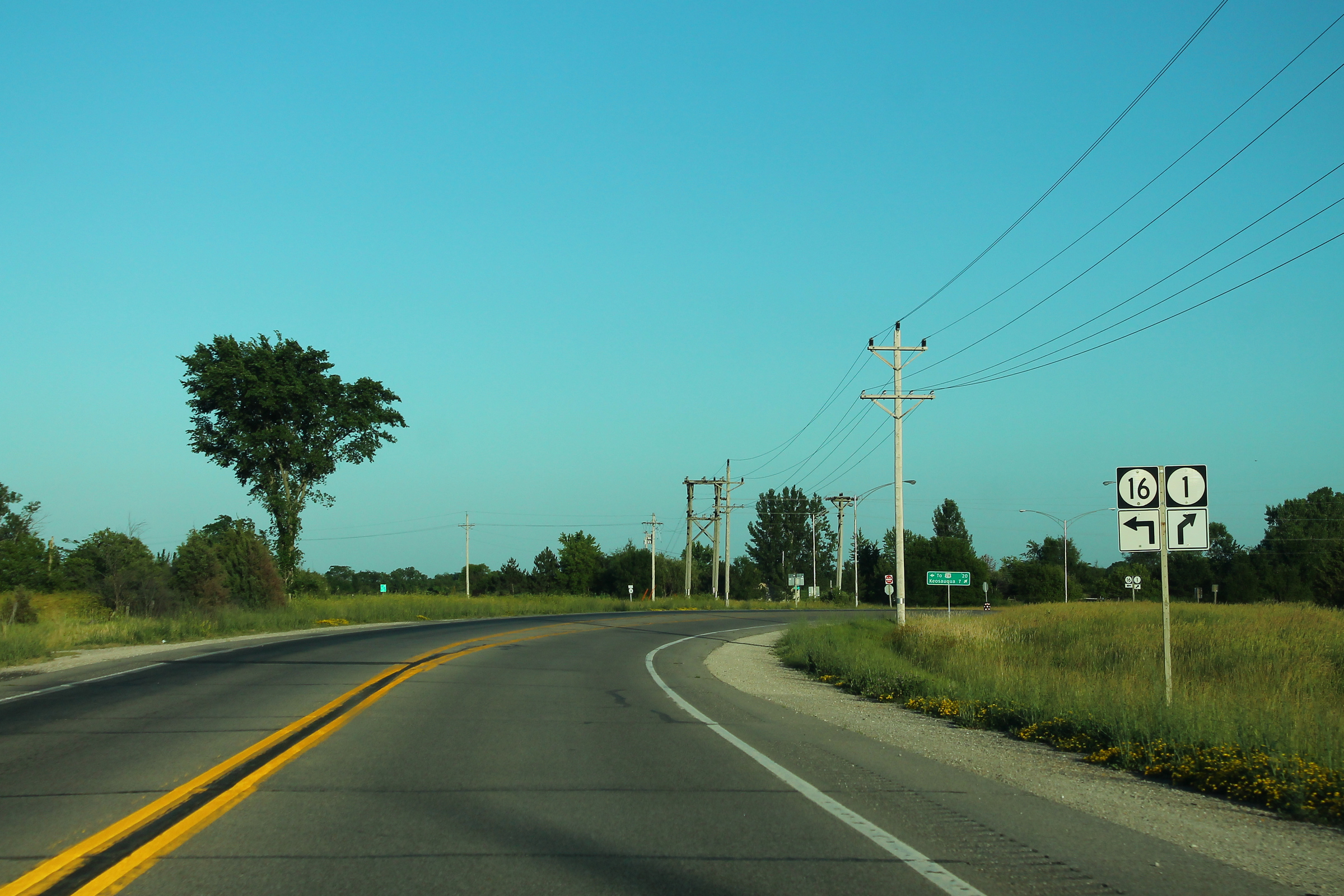 IA16 East - IA1 South Signs